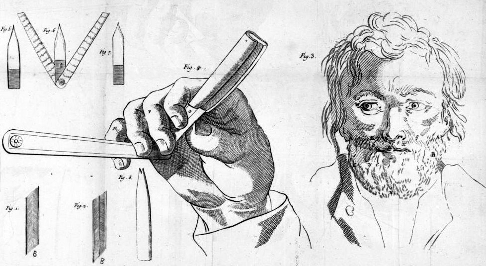 Drawing form the 1770 book of Jean-Jacques Perret, "La pogonotomie, ou L'art d'apprendre a se raser soi-meme"